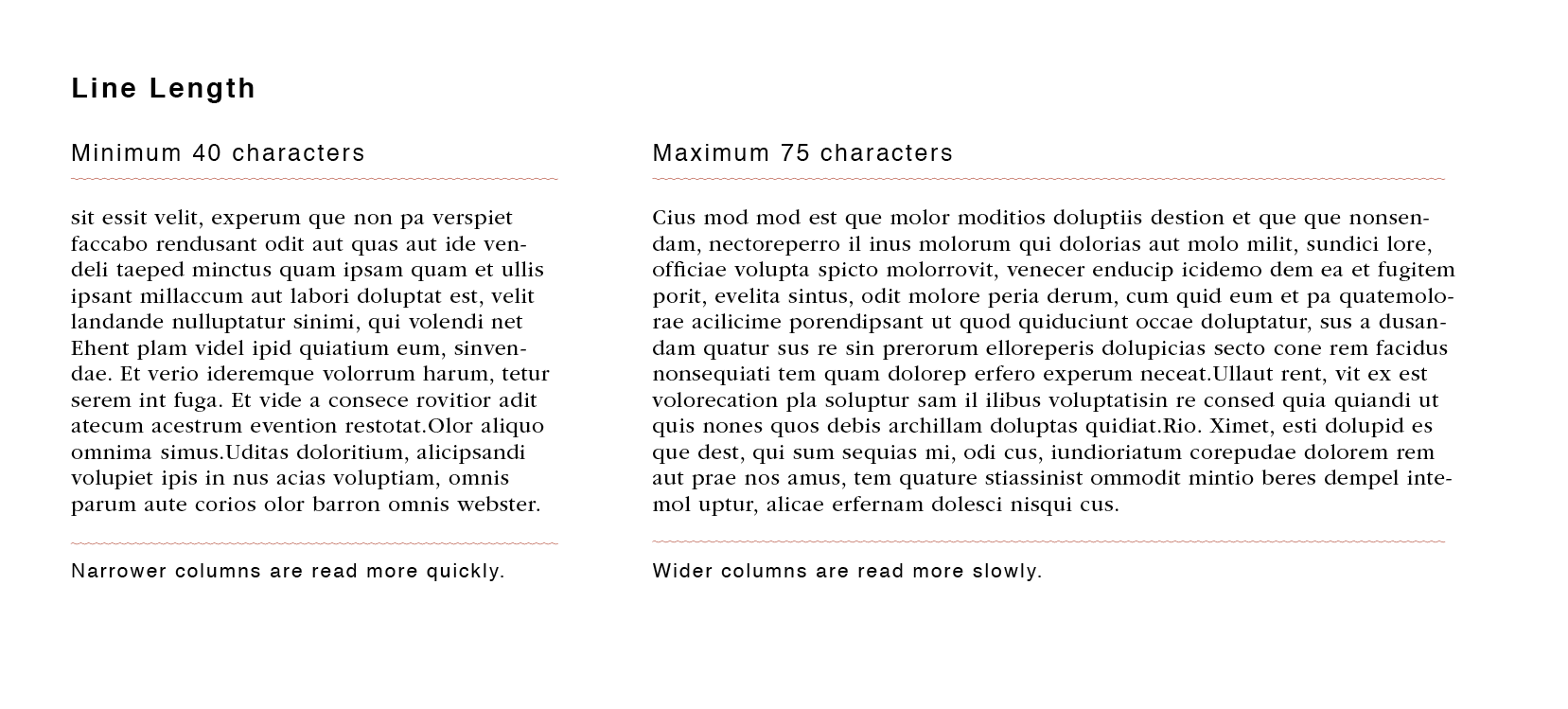 Text column examples.